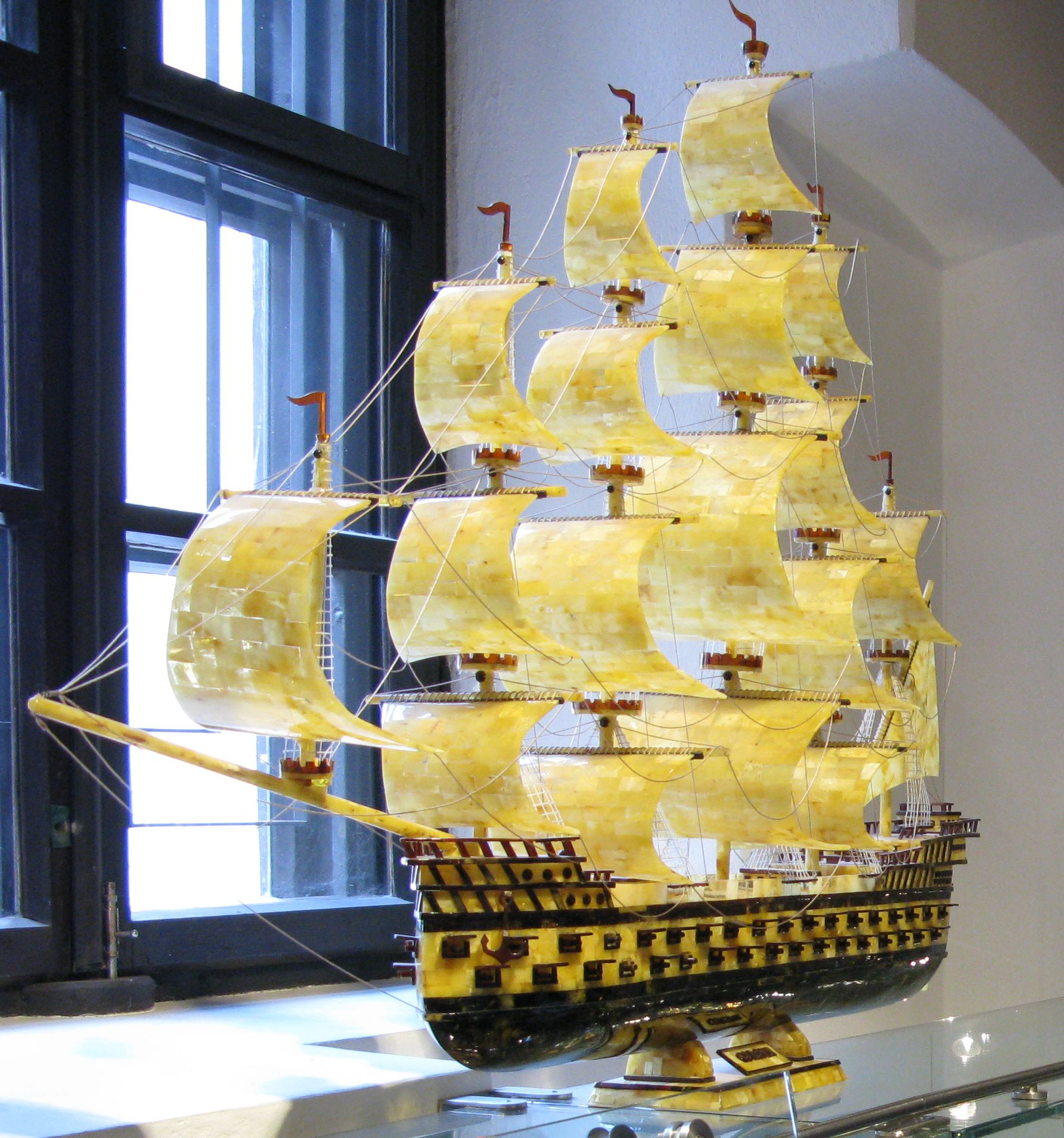 A boat completely made of amber in a giftshop in Lithuania